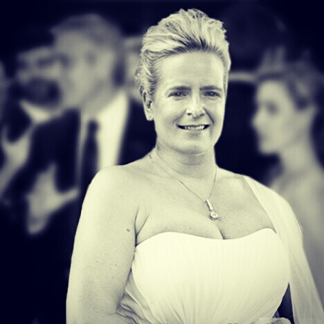 Julie O'Neill at the UK Adult Humour Awards 2012